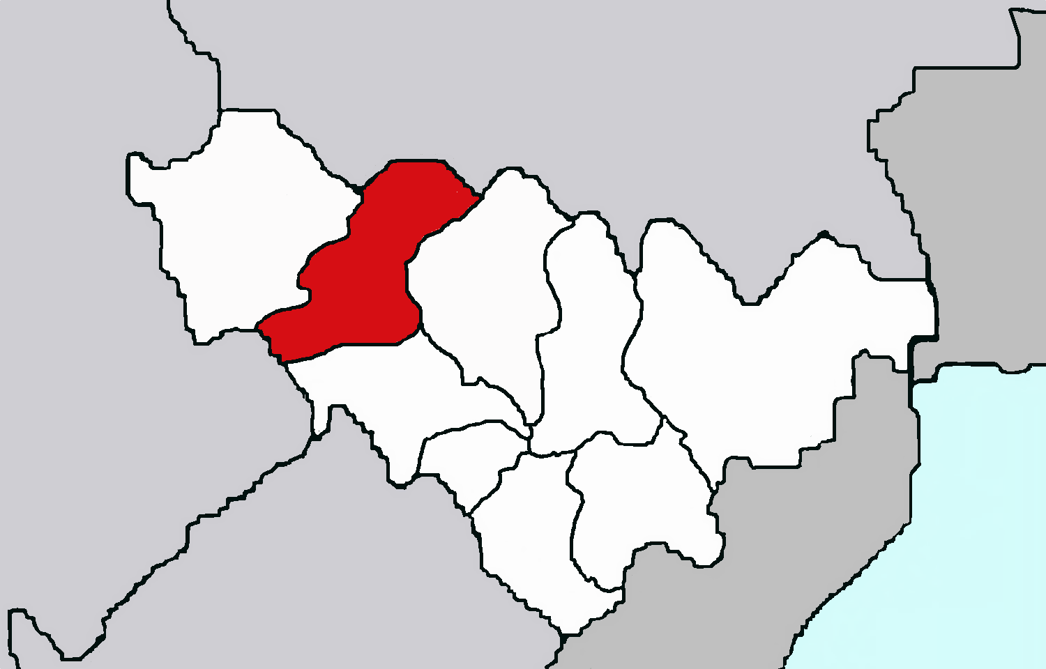 Maps of Jilin Province , China